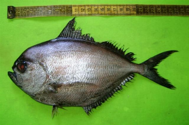 Brama dussumieri bought in Karachi, Pakistan.